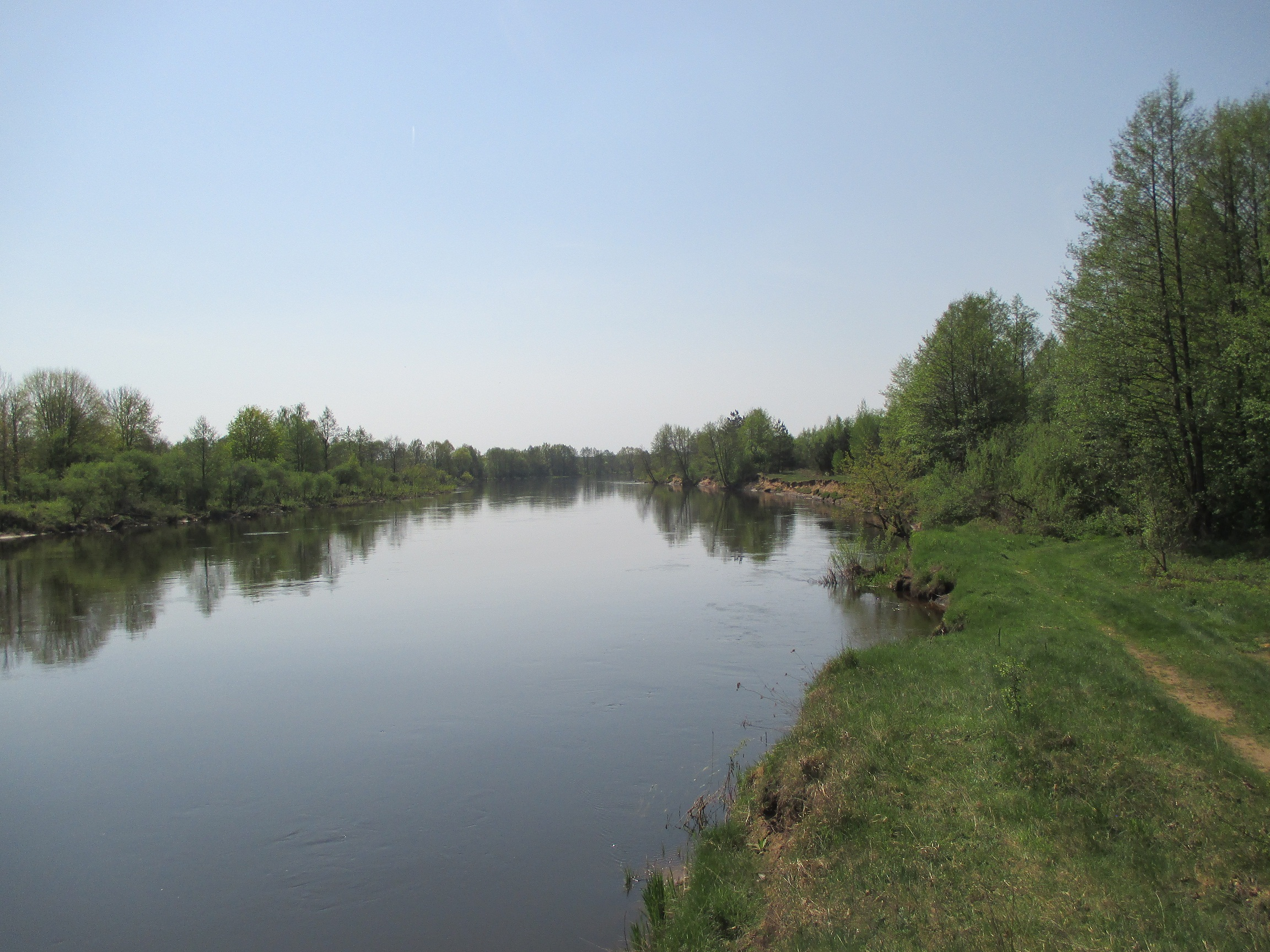 Neman near Bielica in Belarus